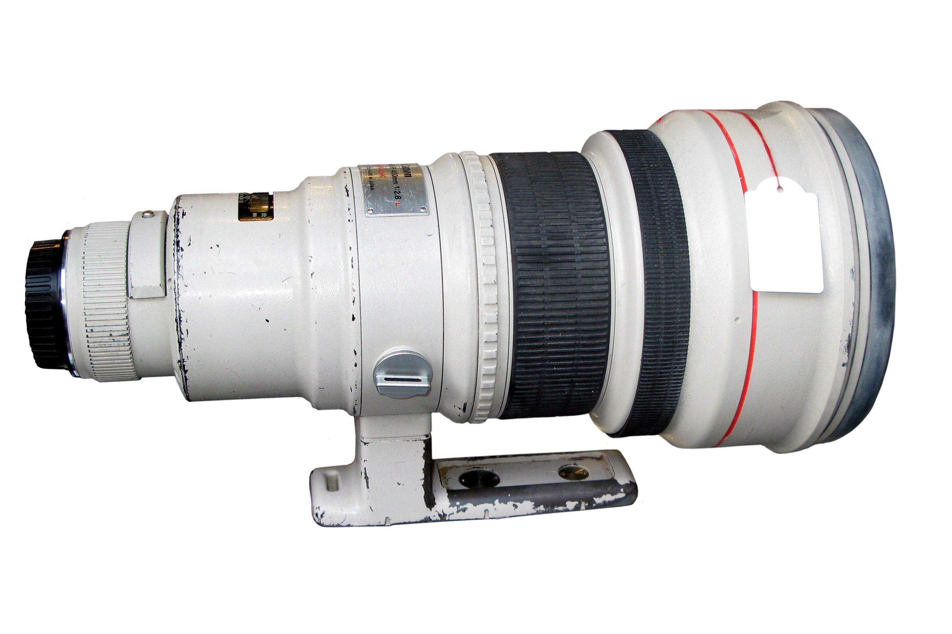 Canon EF 400mm lens f/2.8